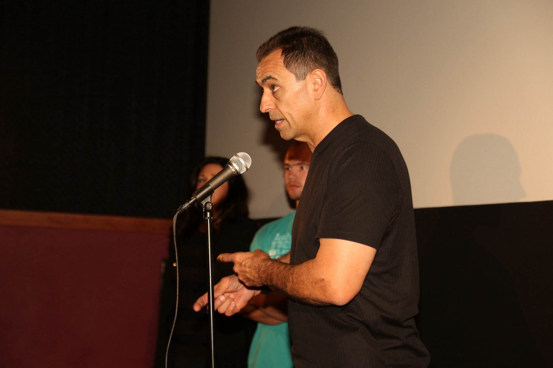 Visger attended the premier of GridIron Gladiators directed by Todd Trigsted